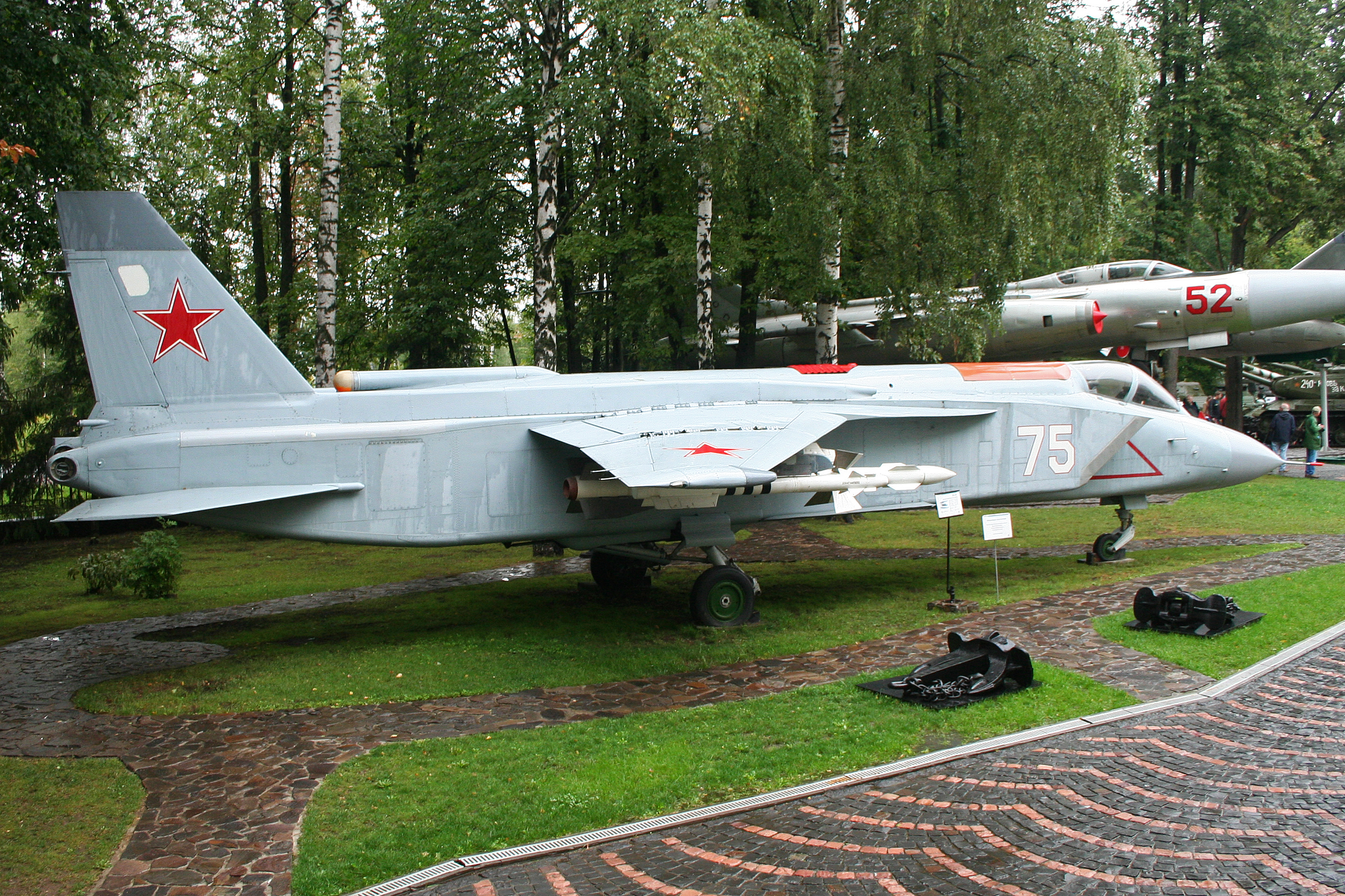 The NATO codename for this VSTOL type is 'Freestyle'. This is actually the third aircraft built (msn 48-3) although it is painted as '75 white' to represent the second aircraft (msn 48-2). It is displayed at the Vadim Zadorozhny Technical Museum, Arkhangelskoye, Moscow. Russia. 14-8-2012